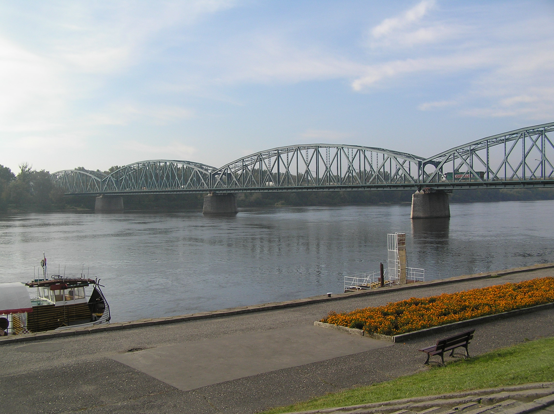 Road bridge in Toruń